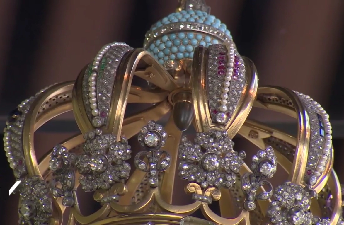 View of the crown of the image of Our Lady of Fátima (Chapel of the Apparitions, Sanctuary of Fátima, Portugal), showing one of the bullets that struck Pope John Paul II during his assassination attempt on 13 May, 1981.